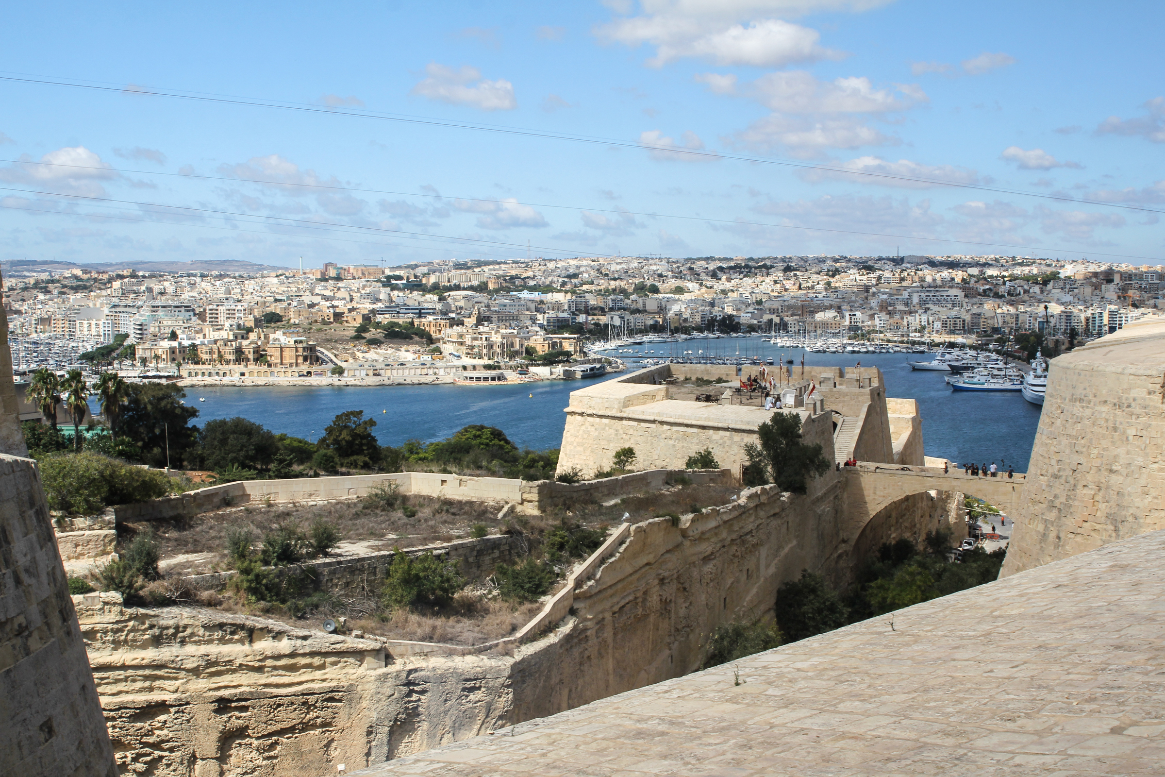 St. Michael's Counterguard, Valletta, Malta. The flags on the counterguard are for the filming of the Assassin's Creed movie.